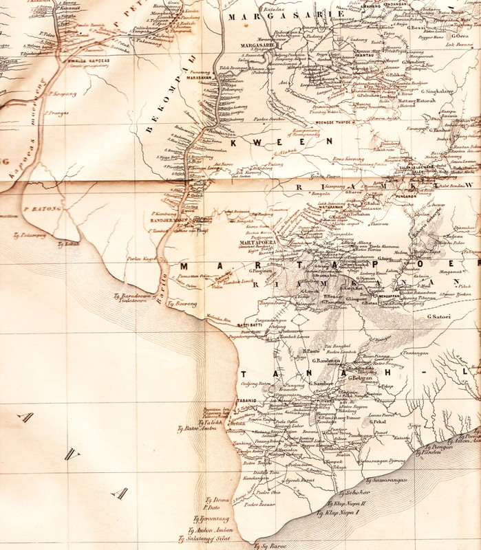 Kaart van zuidwest Borneo